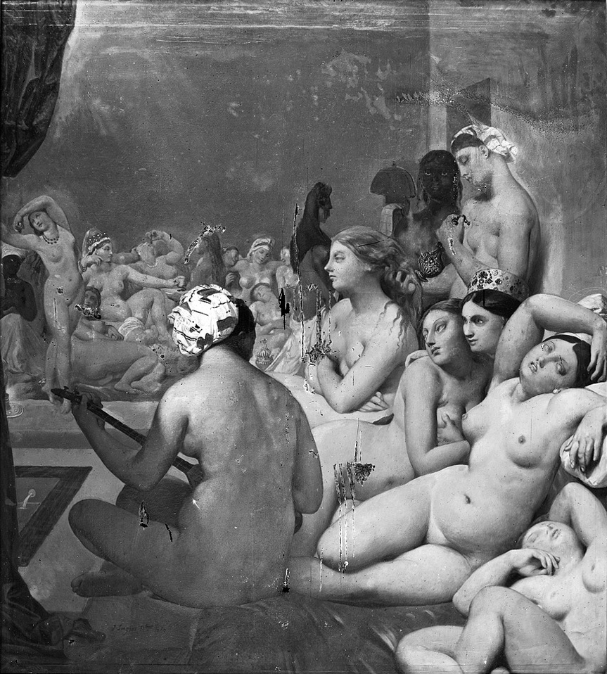 1859 daguerreotype by Charles Marville showing the original state of Ingres' painting The Turkish Bath